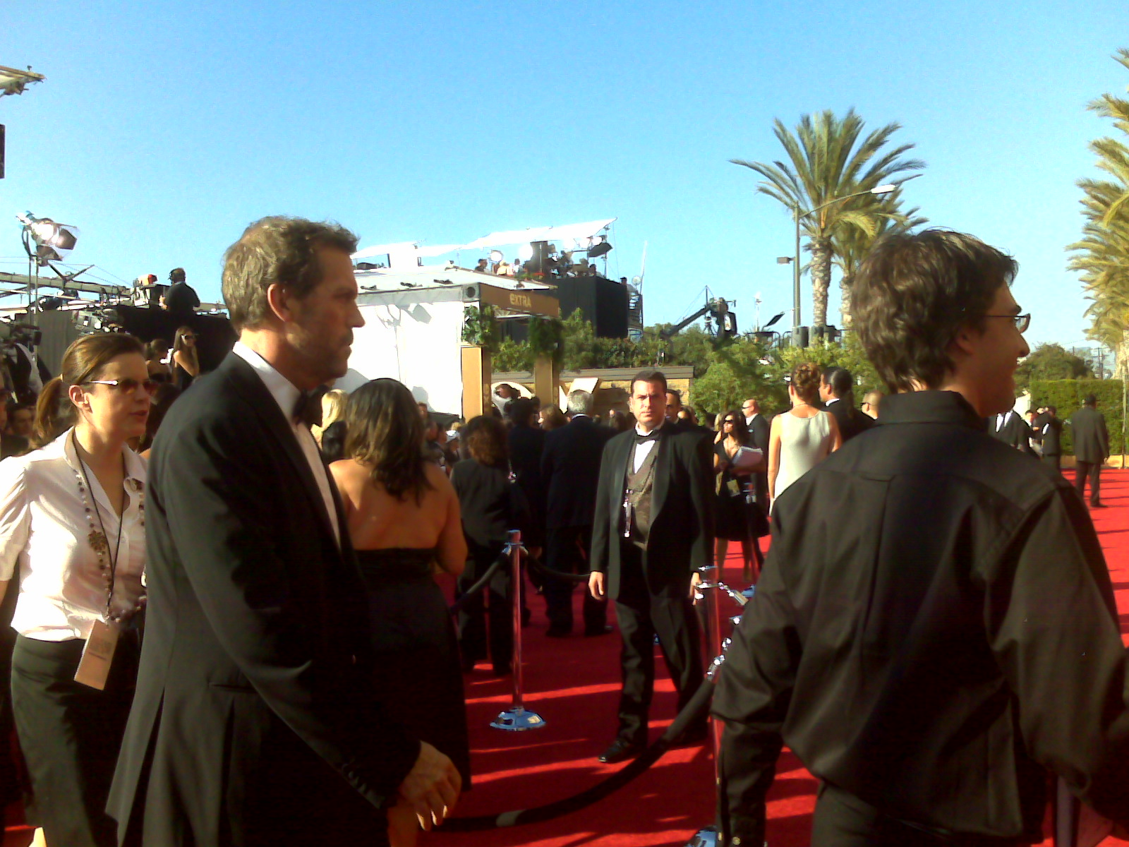 Actor Hugh Laurie arrives at the 59th Annual Emmy Awards.